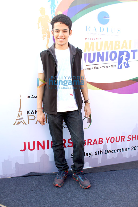 Darsheel Safary at the Mumbai Juniorthon